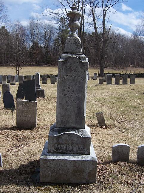 Gravestone of Burnham Martin, Vermont Lieutenant Governor from 1858 to 1860